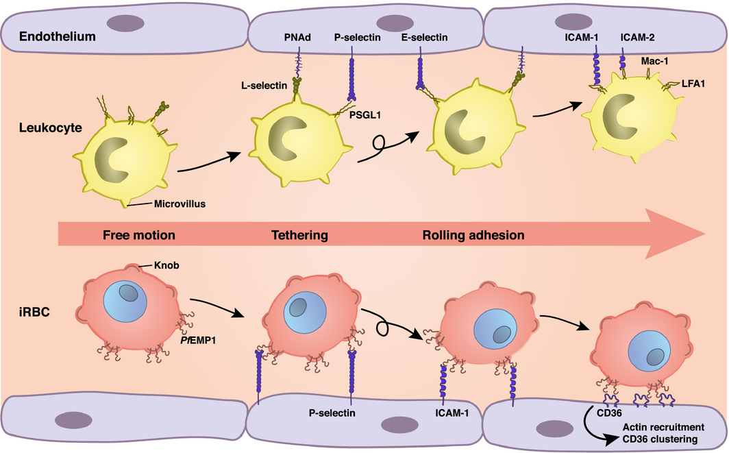 Schematic illustration of the adhesive phenotypes displayed by P. falciparum-infected erythrocytes and leukocytes.